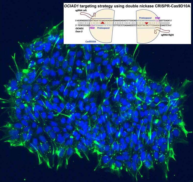 CRISPR stem cell image